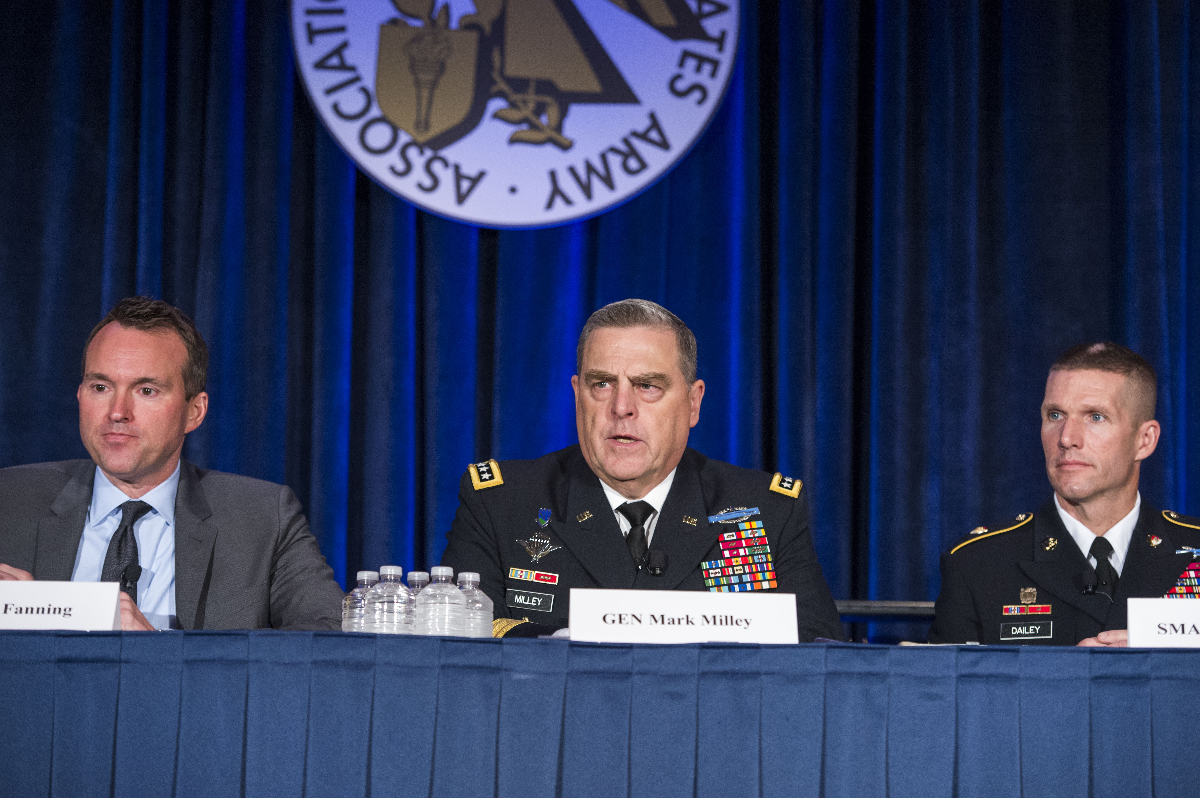 U.S. Army Chief of Staff, Gen. Mark A. Milley, attends the Family Forum #3 meeting during the Association of the United States Army annual meeting and exposition, Washington, D.C., October 5, 2016. (U.S. Army photo by Sgt. 1st Class Chuck Burden)